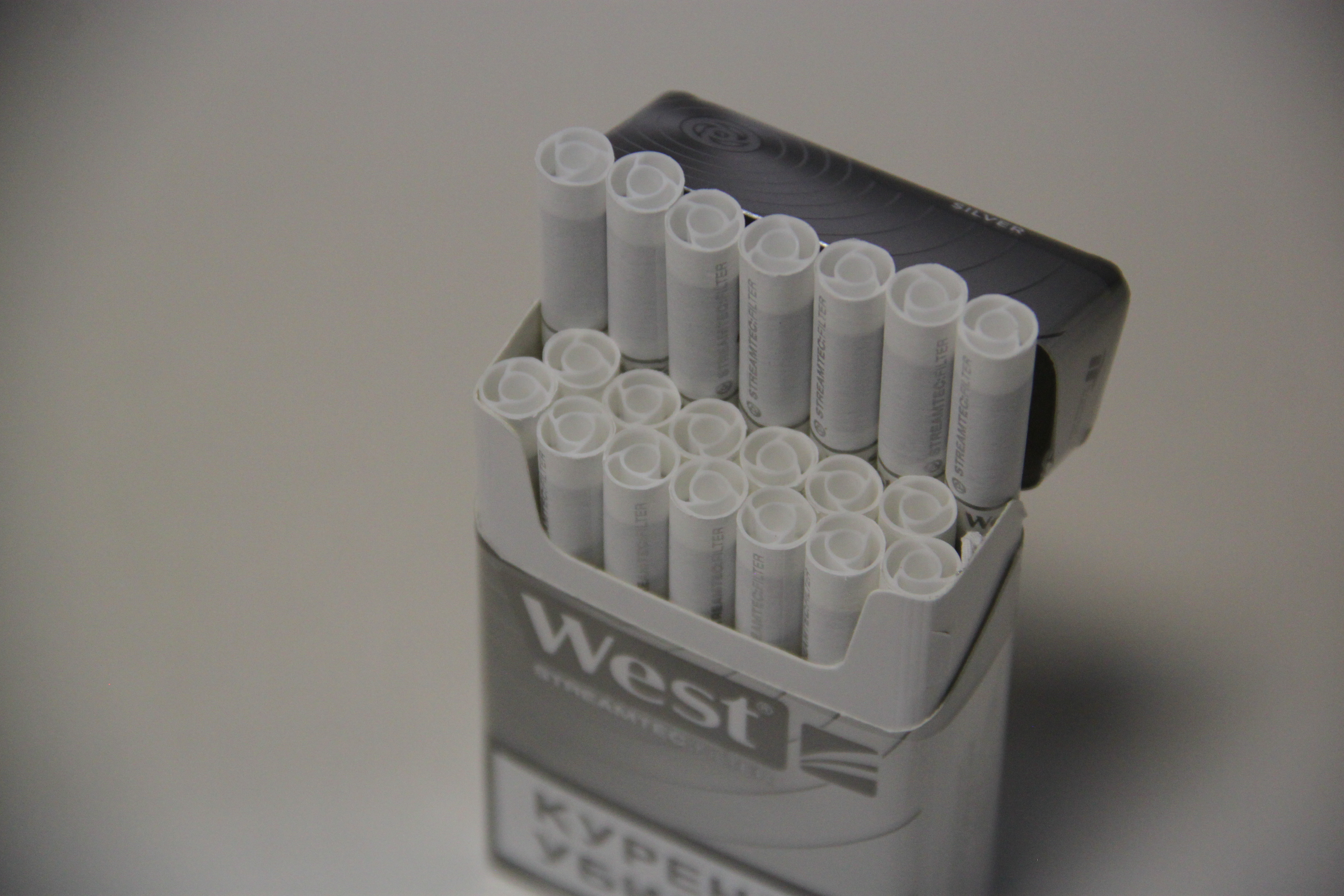 Фильтр StreamTec